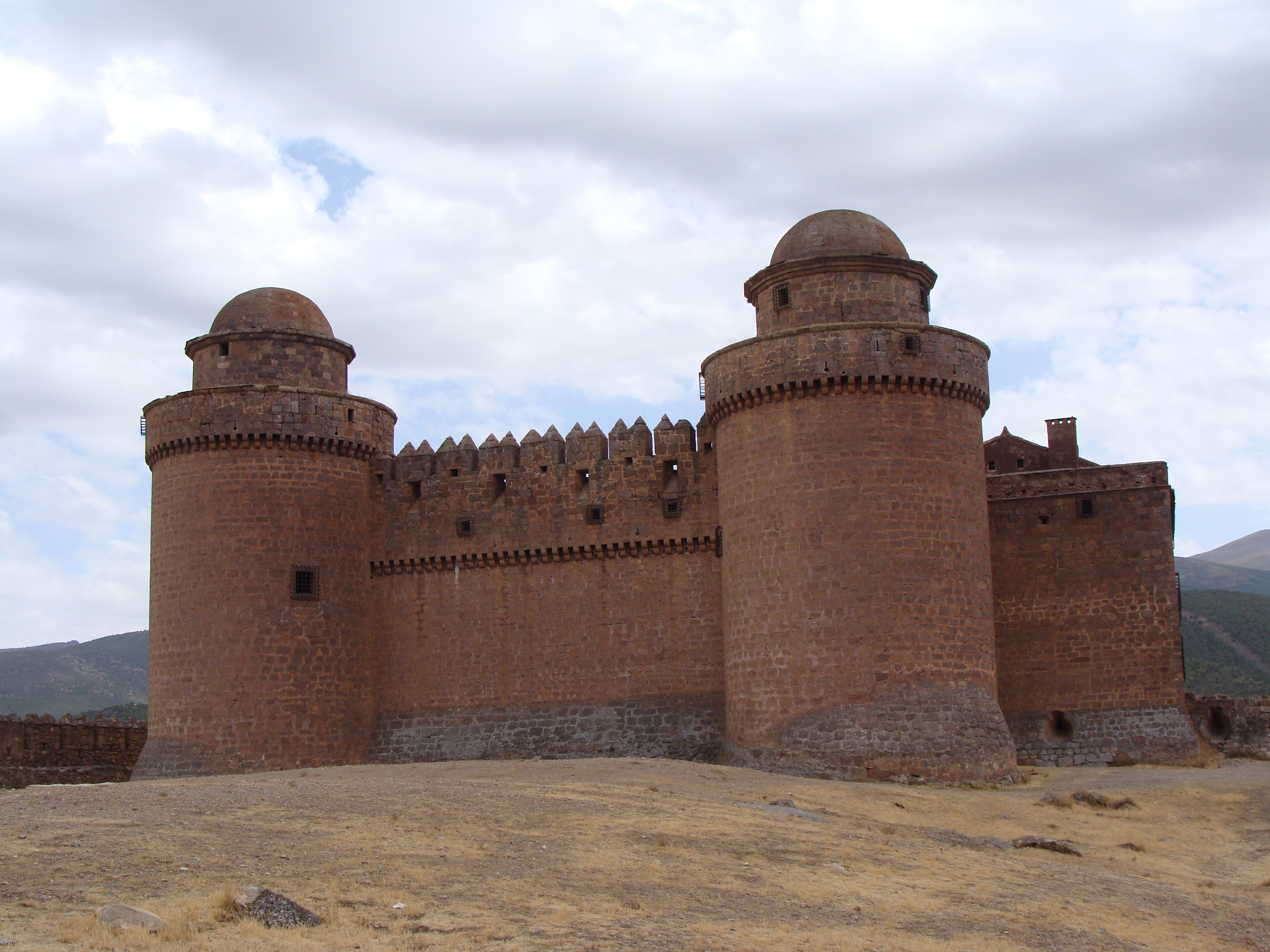 the castle of La Calahorra, in Spain